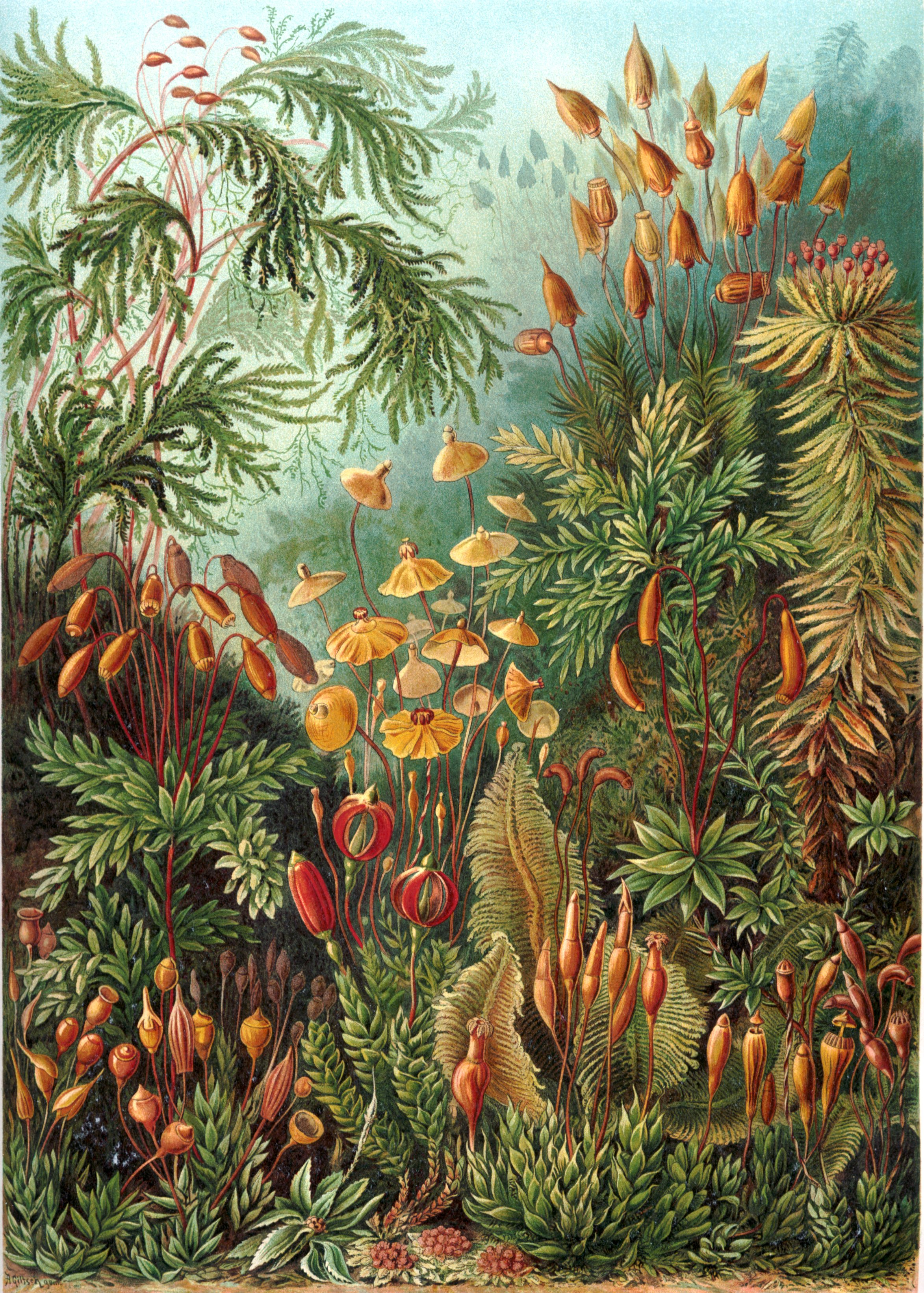 For index to numbers, see here. Thamnium alopecurum (Linné) = Thamnobryum alopecurum (Hedw.) Nieuwl. ex Gangulee Eurhynchium praelongum (Linné) = Eurhynchium pumilum (Wilson) Schimp. Polytrichum commune (Linné) = Polytrichum commune Hedw. Sphagnum cymbifolium (Ehrhard) = Sphagnum palustre L. Splachnum luteum (Linné) = Splachnum luteum Hedw. Mnium undulatum (Hedwig) = Hypnum ligulatum F.Weber & D.Mohr Rhodobryum roseum (Schreber) = Rhodobryum roseum (Hedw.) Limpr. Physcomitrium acuminatum (Schleich.) = Physcomitrium eurystomum Sendtn. Physcomitrium ericetorum (Notaris) = Physcomitrium ericetorum (De Not.) Bruch & Schimp. Physcomitrium sphaericum (Schwaeg.) = Physcomitrium sphaericum (C.F. Ludw.) Fürnr. Sphagnum medium (Limpricht) = Sphagnum magellanicum Brid. Andreaea Thedenii (Schimper) = Andreaea obovata Thed. Hypnum castrense (Linné) = Hypnum crista-castrensis Hedw. Tetraplodon urceolatus (Schimper) = Tetraplodon urceolatus (Hedw.) Bruch & Schimp. Dissodon Hornschuchii (Greville) = Tayloria hornschuchii (Grev. & Arn.) Broth. Dissodon Froelichii (Hedwig) = Tayloria froelichiana (Hedw.) Mitt. ex Broth.